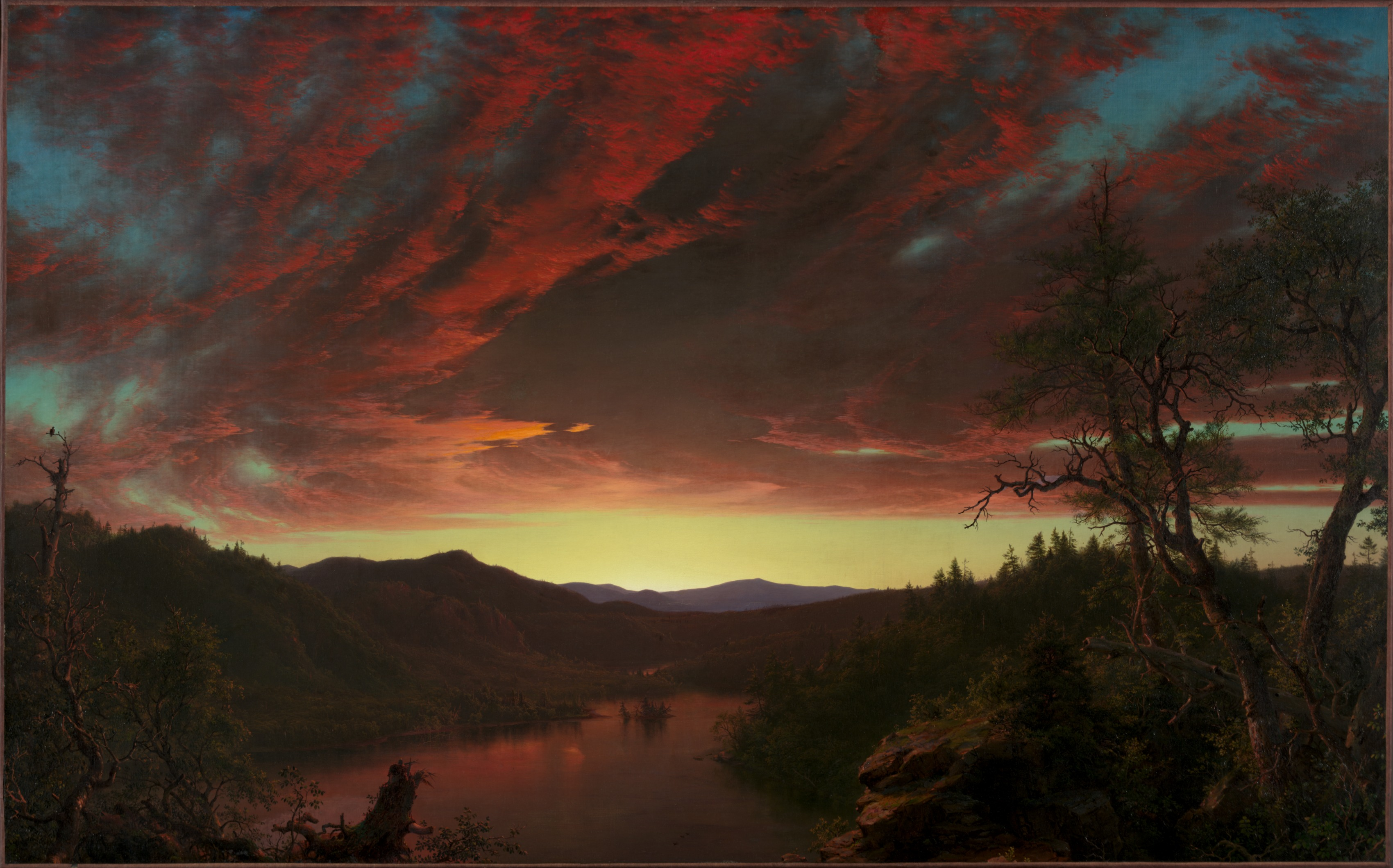 In his New York studio, Church painted this spectacular view of a blazing sunset over wilderness near Mount Katahdin in Maine, which he had sketched during a visit nearly two years earlier. Although Church often extolled the grandeur of pristine American landscape in his work, this painting appears to have additional overtones. Created on the eve of the Civil War, the painting's subject can be interpreted as symbolically evoking the coming conflagration. Church's considerable technical skills and clever showmanship contributed to his fame as the premier artist of his generation. Rather than debut this painting in an annual exhibition with works by other artists as was the custom, Church instead exhibited it by itself at a prestigious art gallery. Coaxed by advance publicity and highly favorable press reviews, several hundred spectators flocked to admire it during its seven-week run.